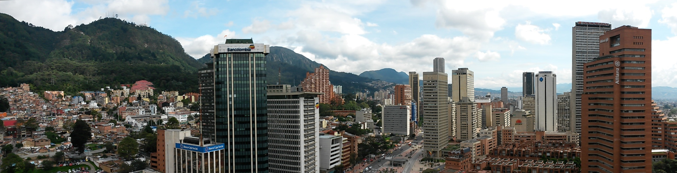 Panorama of the Centro Internacional (International Center) of Bogotá includes (left to right) part of the La Perseverancia neighborhood, Monserrate, the buildings of Banco Caja Social and Bancolombia, Torres del Parque, Plaza de Toros de Santamaría, Hotel Ibis, Edificio Seguros Tequendama, Torre Colpatria, Centro Internacional Tequendama, Edificio Aseguradora Del Valle, the former Contraloría building, Torre Fonade, the Banco de Occidente building, the Davivienda building (centro de comercio internacional), the Torre Allianz, and a small portion of the Museo Parque Central building. In the foreground the Museo Nacional TransMilenio station and Parque Central Bavaria are also visible.